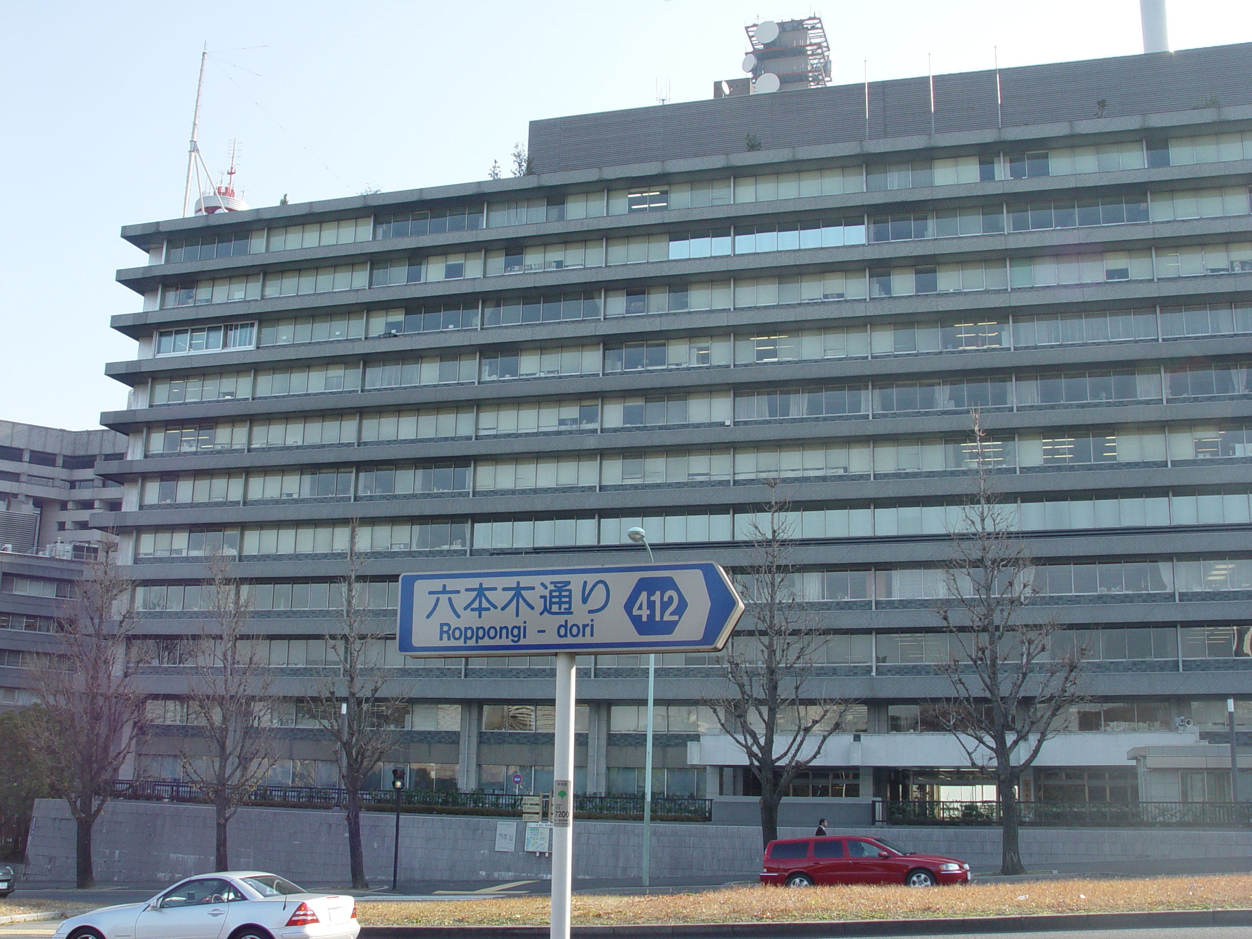 Tokyo Route 412 東京都道412